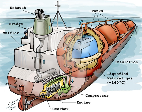 A cartoon of the insides of a LNG carrier